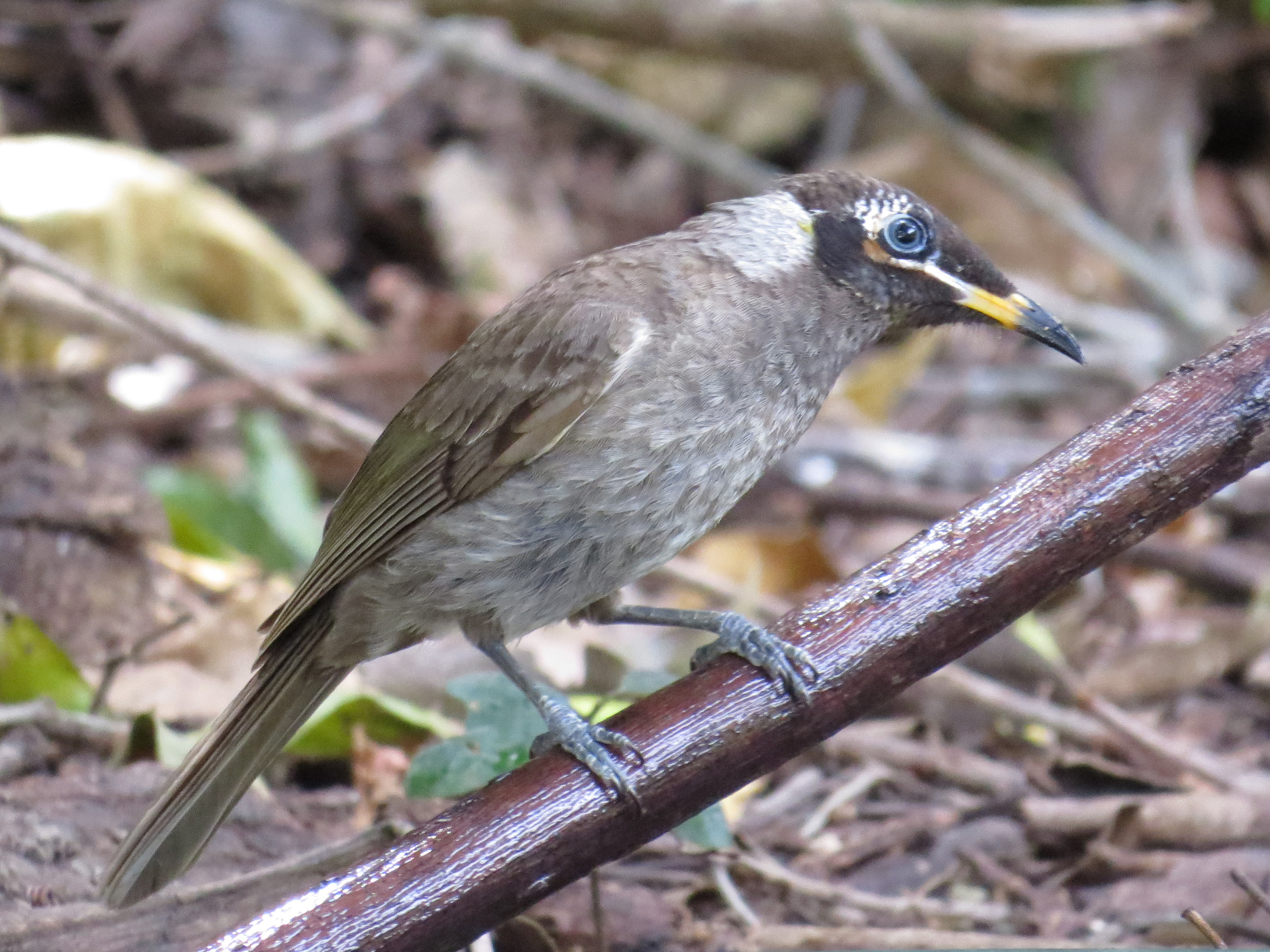 Bridled honeyeater (Lichenostomus frenatus) at Julatten, Queensland, Australia